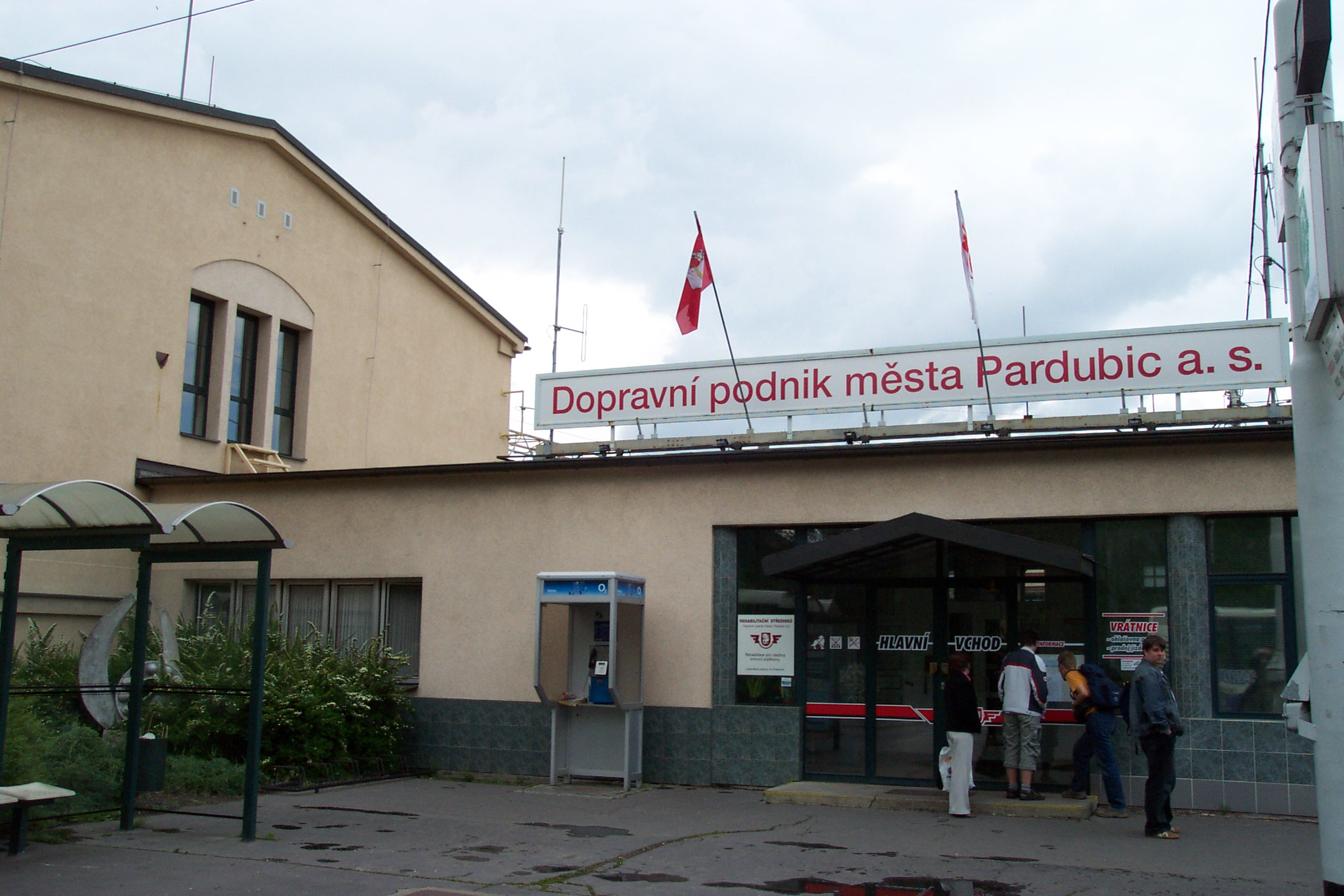 Dukla Vozovna depot in Pardubice